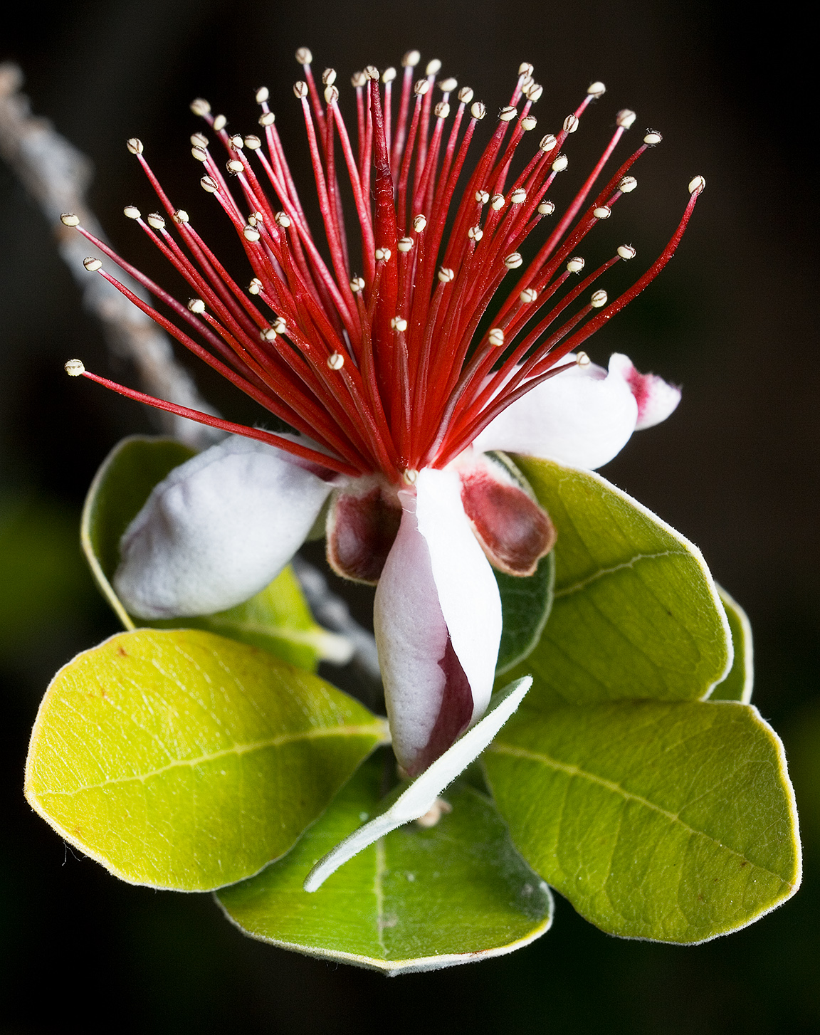 Feijoa sellowiana in Tasmania, Australia